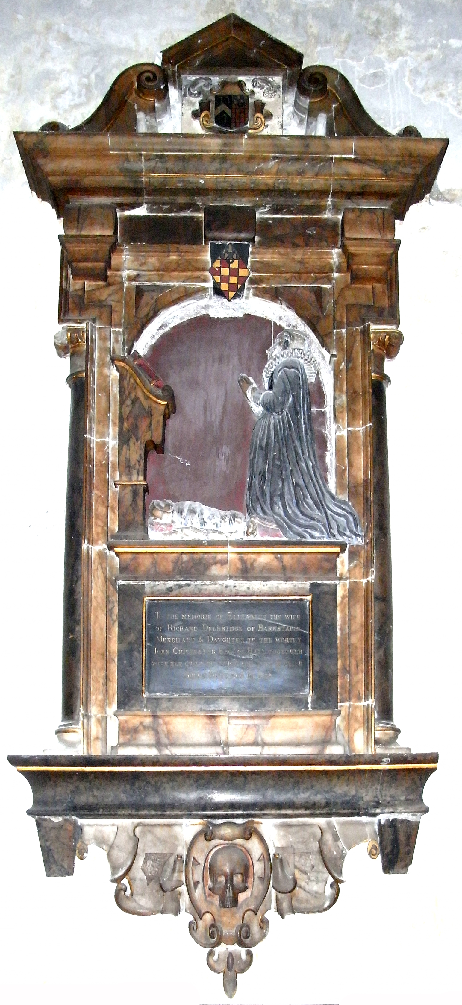 Wall-mounted monument in SS Peter and Mary Magdalene parish church, Barnstaple, Devon, on the south aisle wall, to Elizabeth Chichester (d. 1628), a daughter of John II Chichester (d. 1608) of Hall, Bishop's Tawton, and wife of the Barnstaple Merchant Richard Delbridge. The Inscription is as follows: "To the memorie of Elizabeth the wife of Richard Delbridge of Barnstaple, merchant, & daughter to the worthy John Chichester Esq.r of Hall, together with her child of which she died in childbirth December 18 1628". She is depicted kneeling at a prie dieu with a baby in swaddling clothes on the ground in front of her. Above her is a lozenge showing the arms of Chichester, differenced by a crescent. On top of the monument is an escutcheon with the arms of Delbridge (Sable, a chevron argent between three swan's heads and necks couped proper) impaling Chichester.